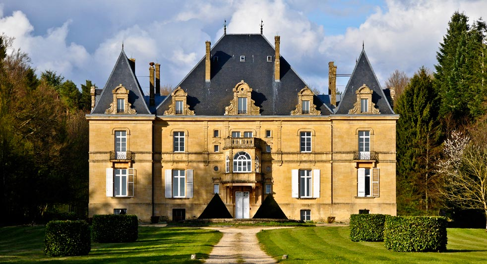 Laclaireau castle